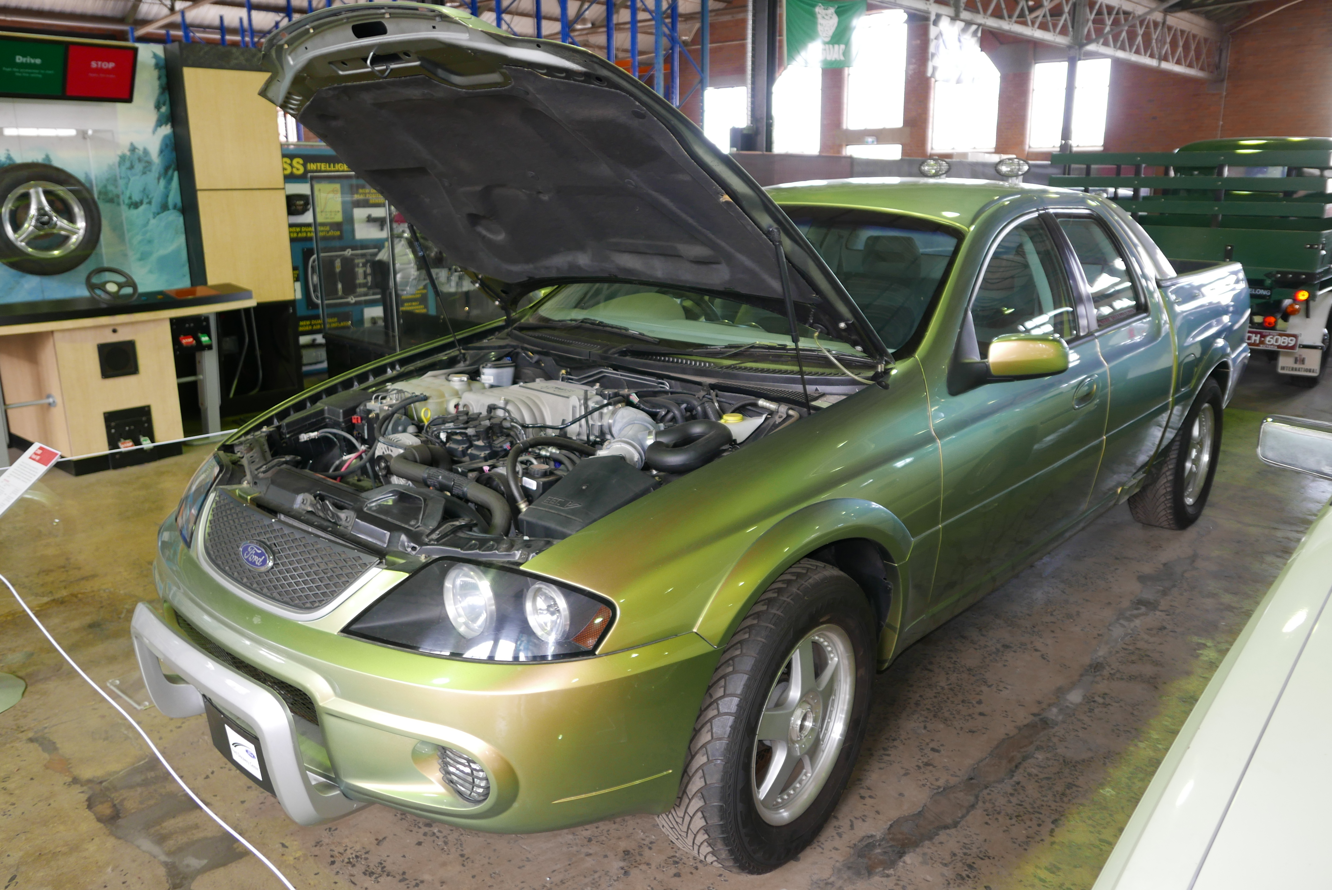 2000 Ford R5 4-door utility, concept based on the Ford Falcon (AU) 2-door utility. Photographed at the Geelong Museum of Motoring and Industry, North Geelong, Victoria, Australia.